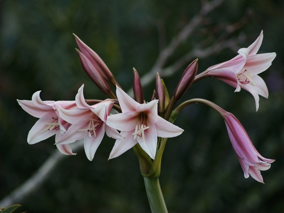 In Brisbane botanic garden, large and tall lilies, no label, but I believe it is species from South Africa Crinum bulbispermum Common names: Crinum Lily, Orange River lily, Milk and Wine Lily, South African River Lily. I heard it is wide spread in Texas where it's called Hardy swamp-lily.